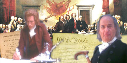 Poster for the John Huston film "Independence" (1976). Ken Howard is Thomas Jefferson and Eli Wallach is Benjamin Franklin.